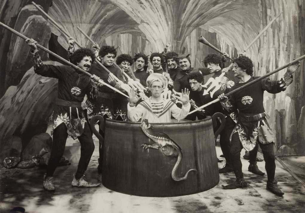 Still photo from the movie Come fu che l’ingordigia rovinò il Natale a Cretinetti (1910) with André Deed